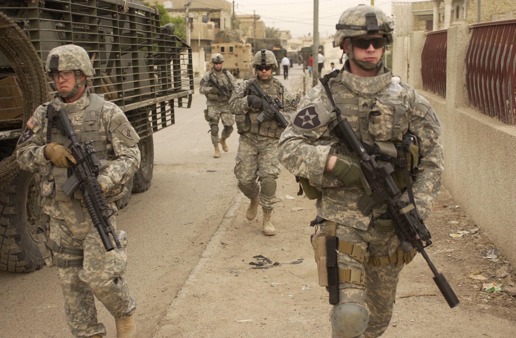 3rd stryker brigade on patrol in Iraq Original caption: U.S. Army soldiers move down a street as they start a clearing mission in Dora, Iraq, on May 3, 2007. Soldiers from the 2nd Platoon, Alpha Company, 2nd Battalion, 3rd Infantry Regiment, 3rd Stryker Brigade Combat Team, 2nd Infantry Division are patrolling the streets in Dora. DoD photo by Spc. Elisha Dawkins, U.S. Army. (Released) 070403-A-3887D-003.jpg